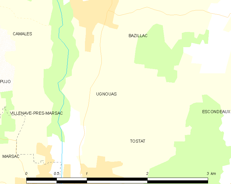 Map of French municipality